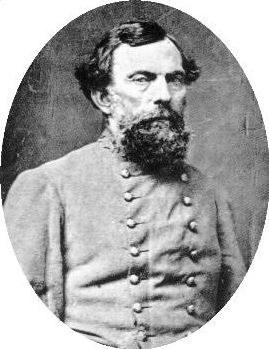 Theophilus H. Holmes, Confederate General from